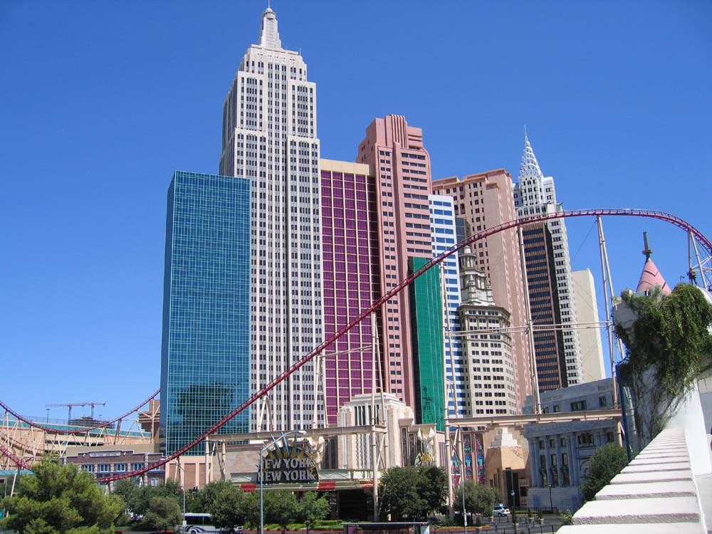 New York-New York Hotel & Casino, Las Vegas Boulevard, Las Vegas, Nevada. Sunday, July 10, 2005.